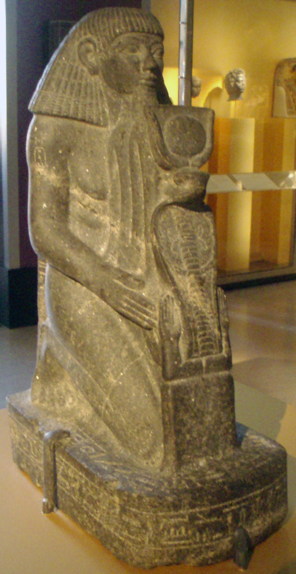 Kneeling statue of Senemut.